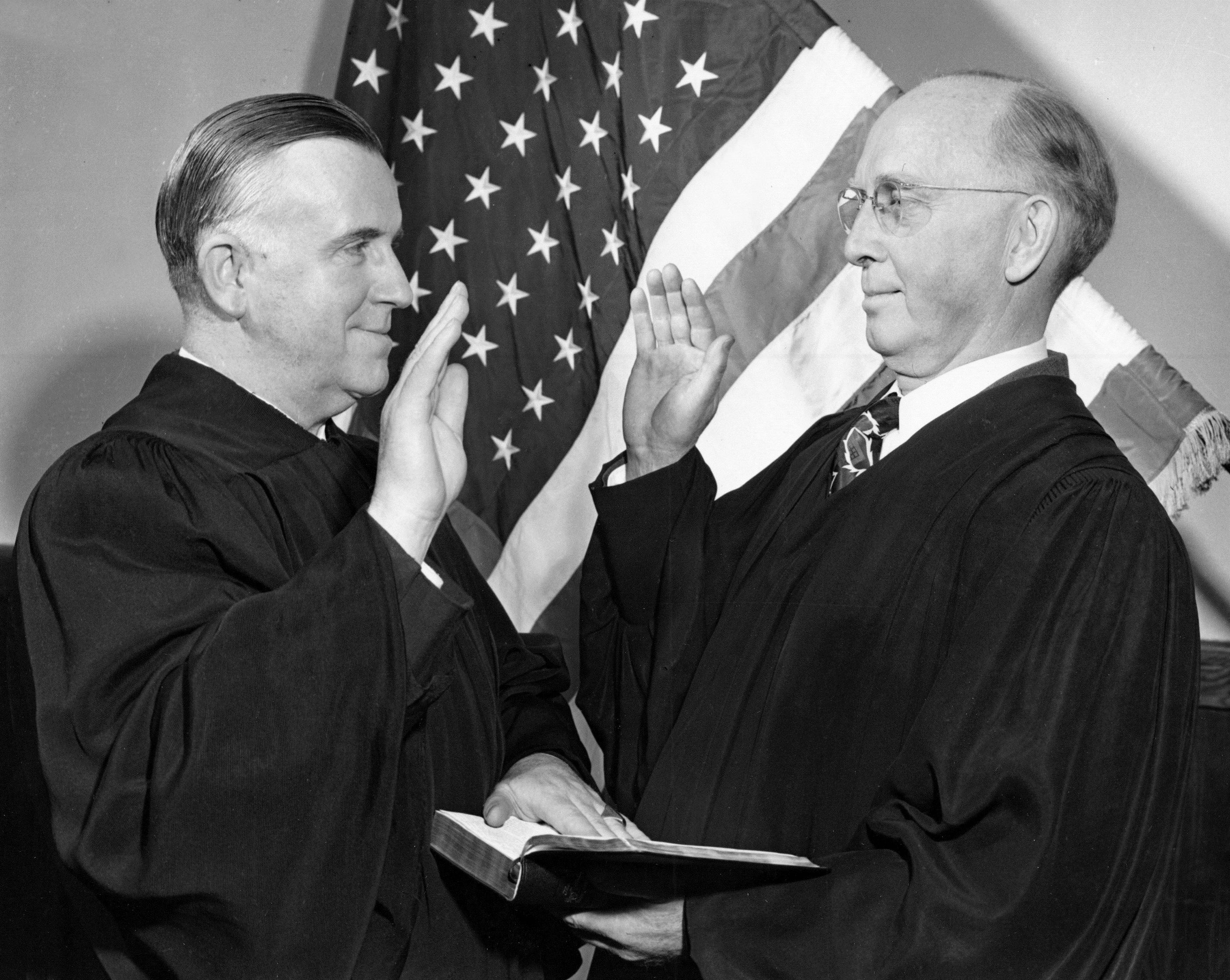 Judge Thomas Patrick Thornton is sworn in as a Federal Judge by Judge Arthur F. Lederle on February 15, 1949.